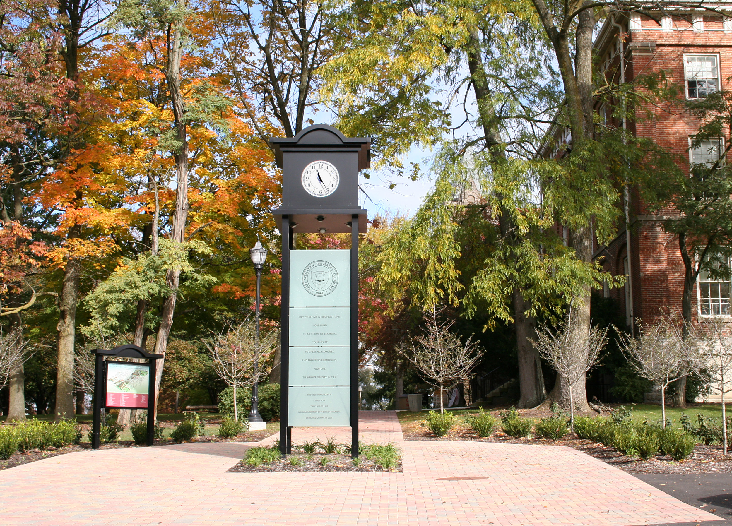 Ohio Wesleyan University in Delaware, Ohio. Photo shot by Derek Jensen (Tysto), 2005-October-27